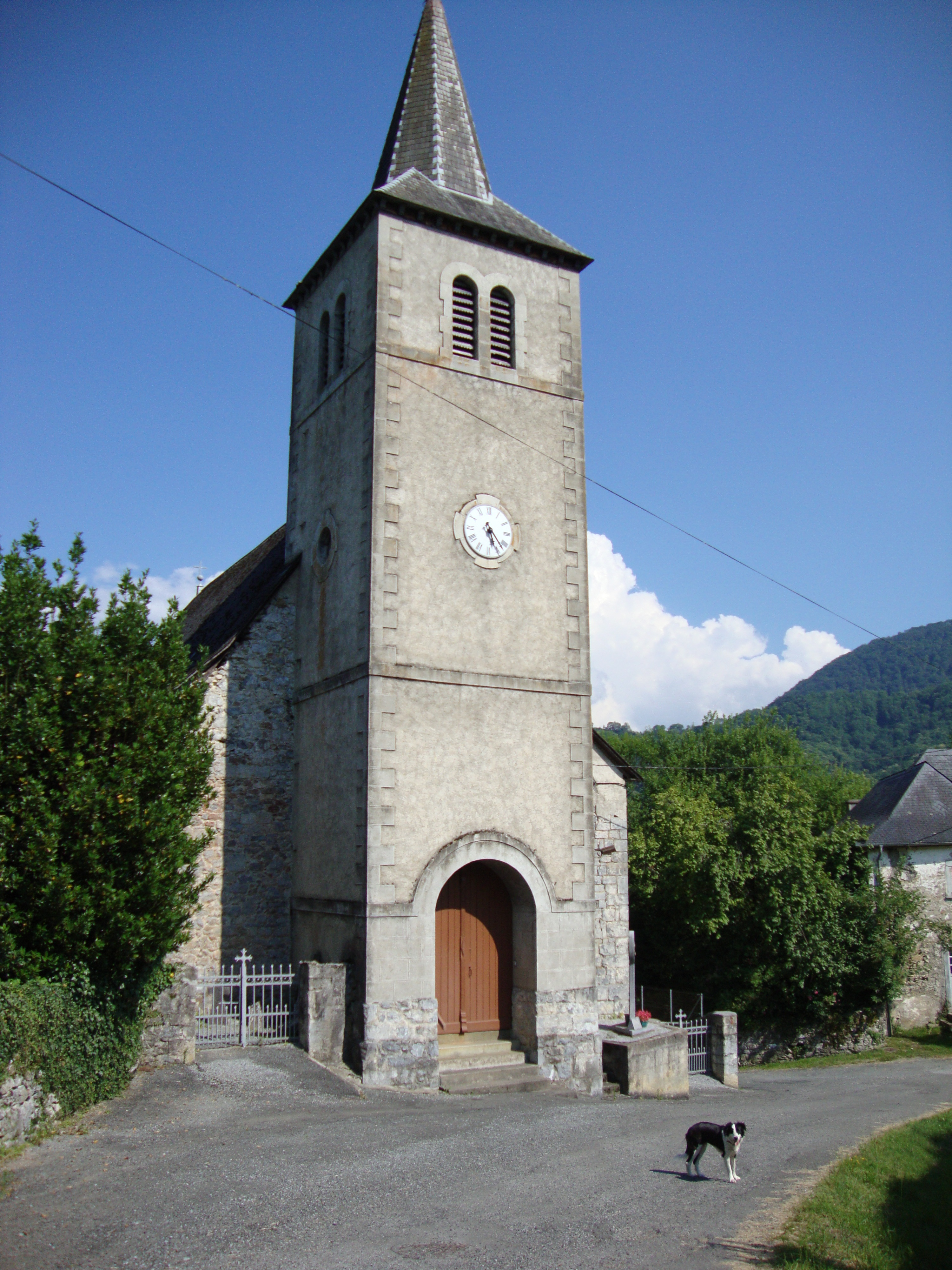 Lacarry (Lacarry e.a. Pyr-Atl, Fr) église.